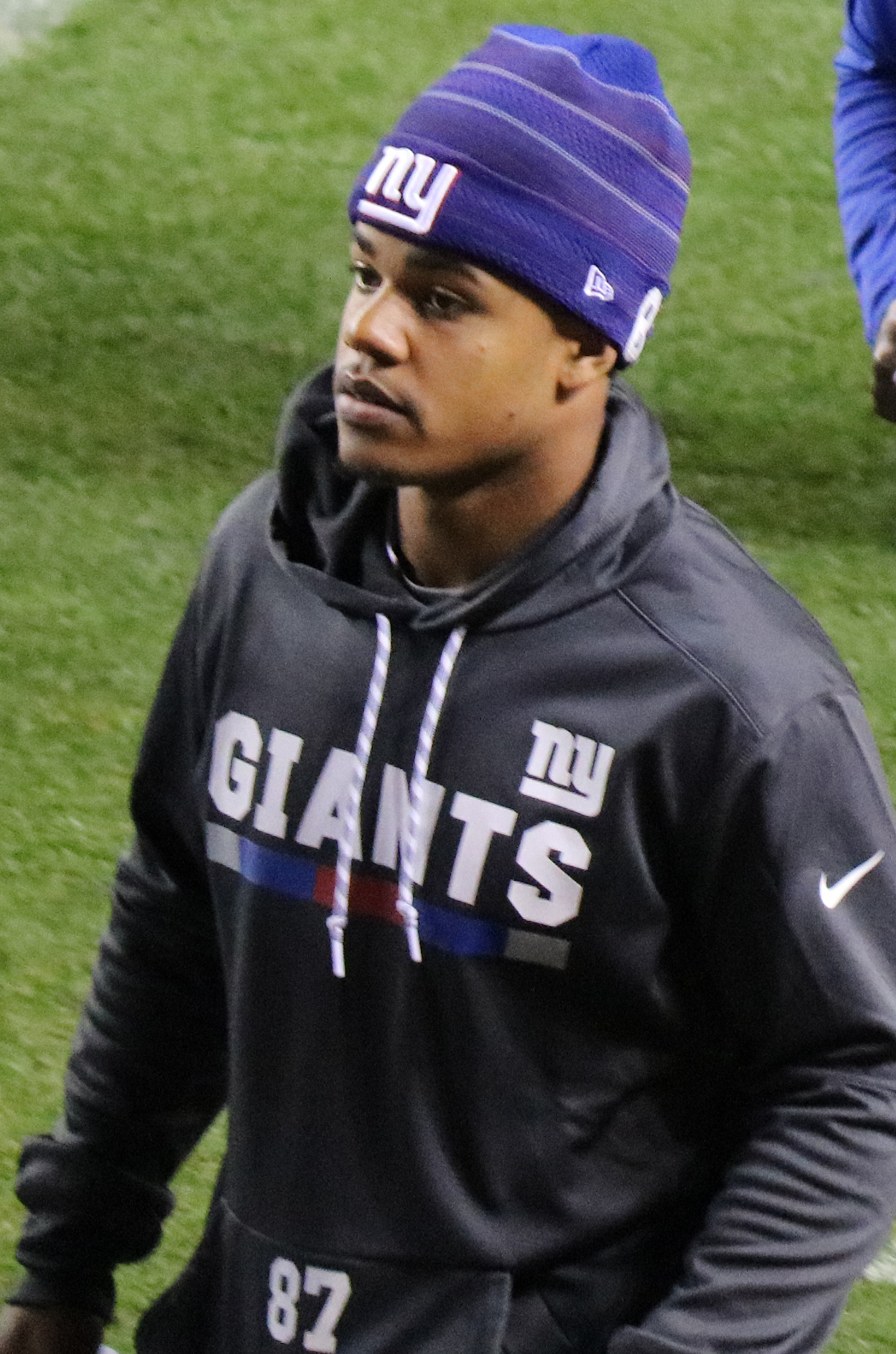 Sterling Shepard, a player on the National Football league.